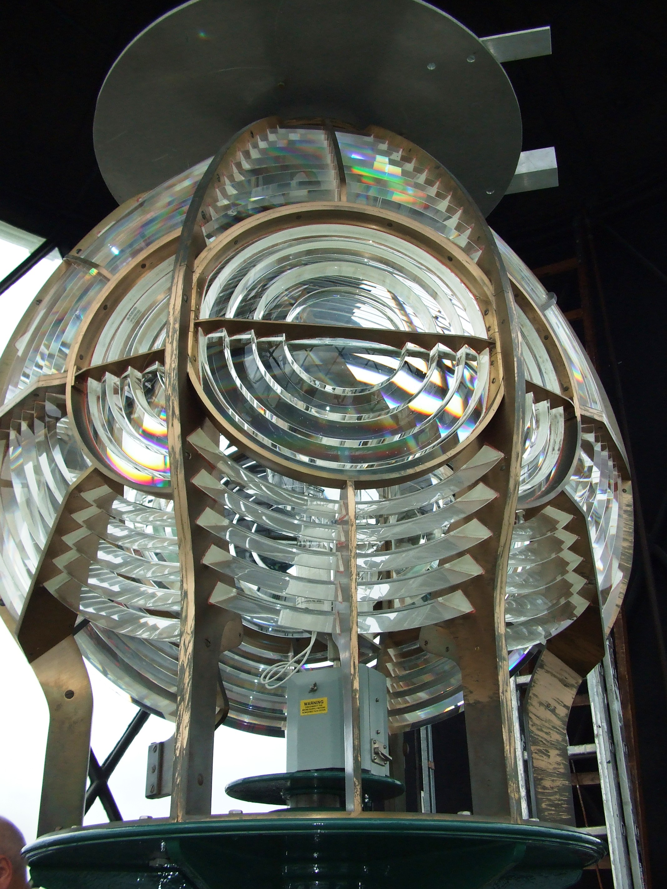 Lens at Start Point lighthouse